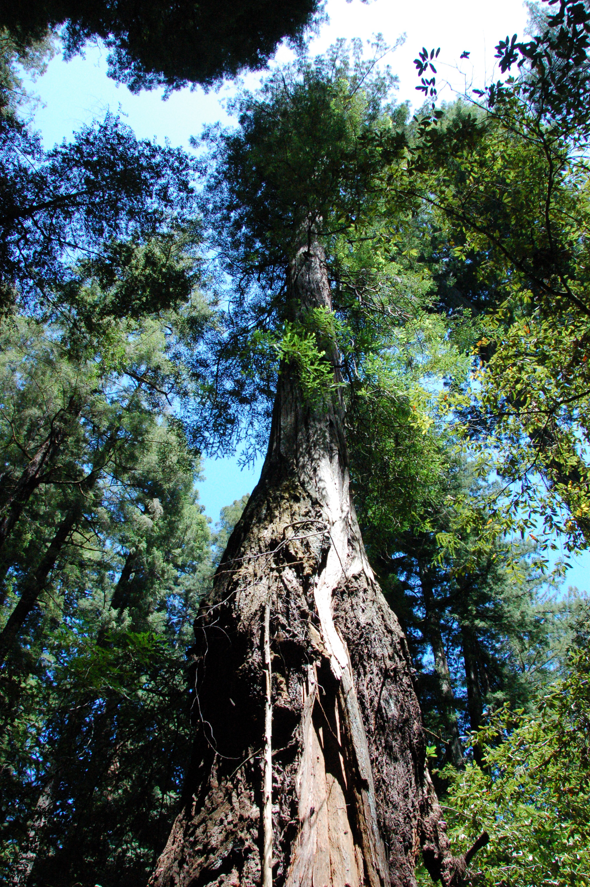 Icicle Tree in the Armstrong Redwoods State Reserve. This photograph taken from ground level looking up shows the characteristic burls of this tree.